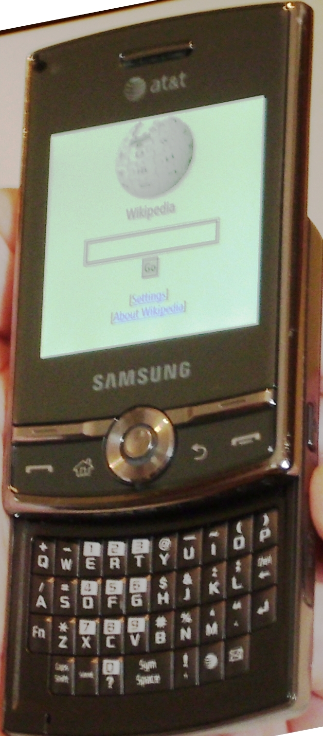 Samsung Propel Pro, SGH-i627 cellphone - At&t USA